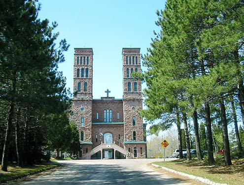 Former Trappists monastery in Dolbeau-Mistassini